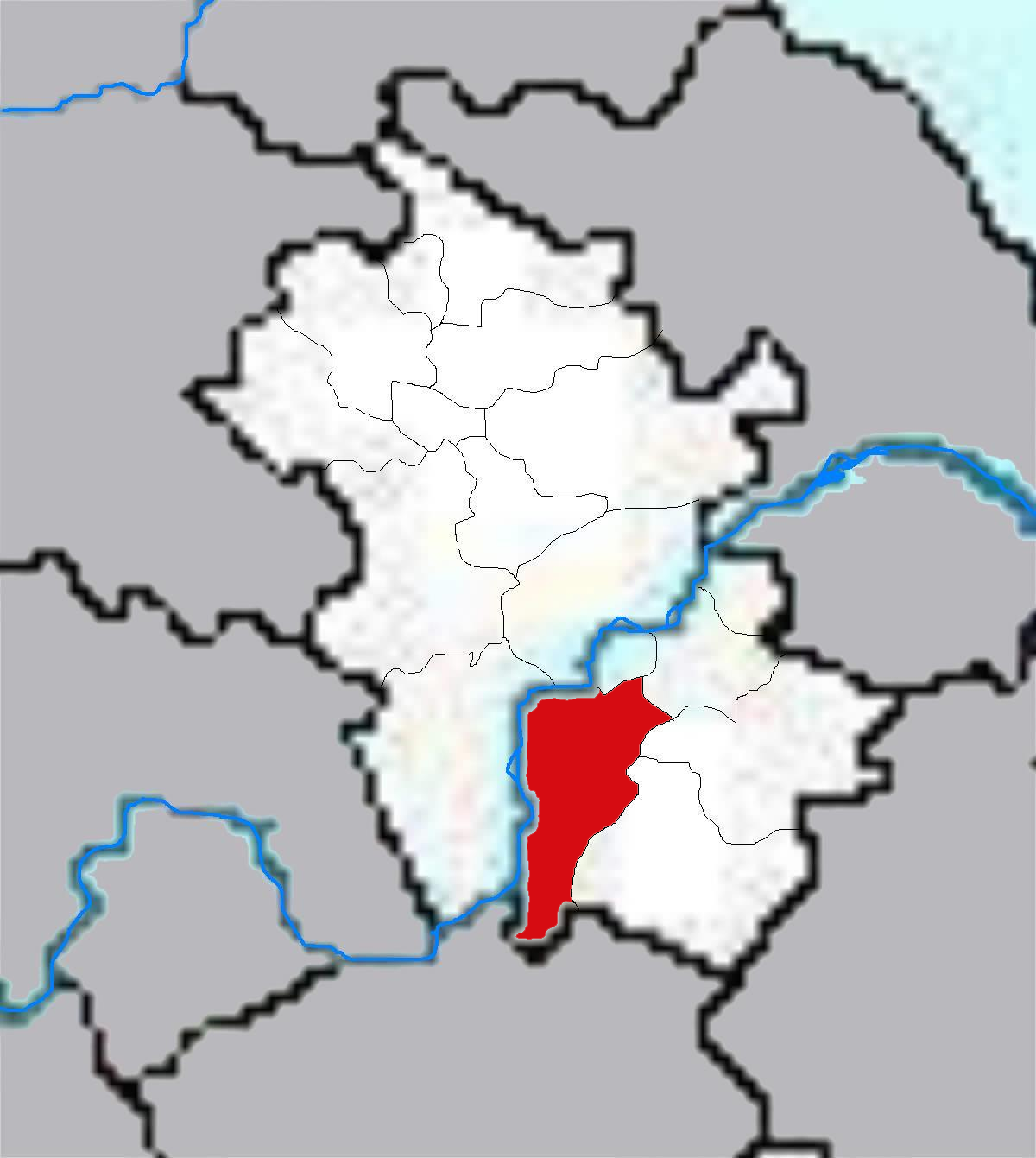 Maps of Anhui Province of China